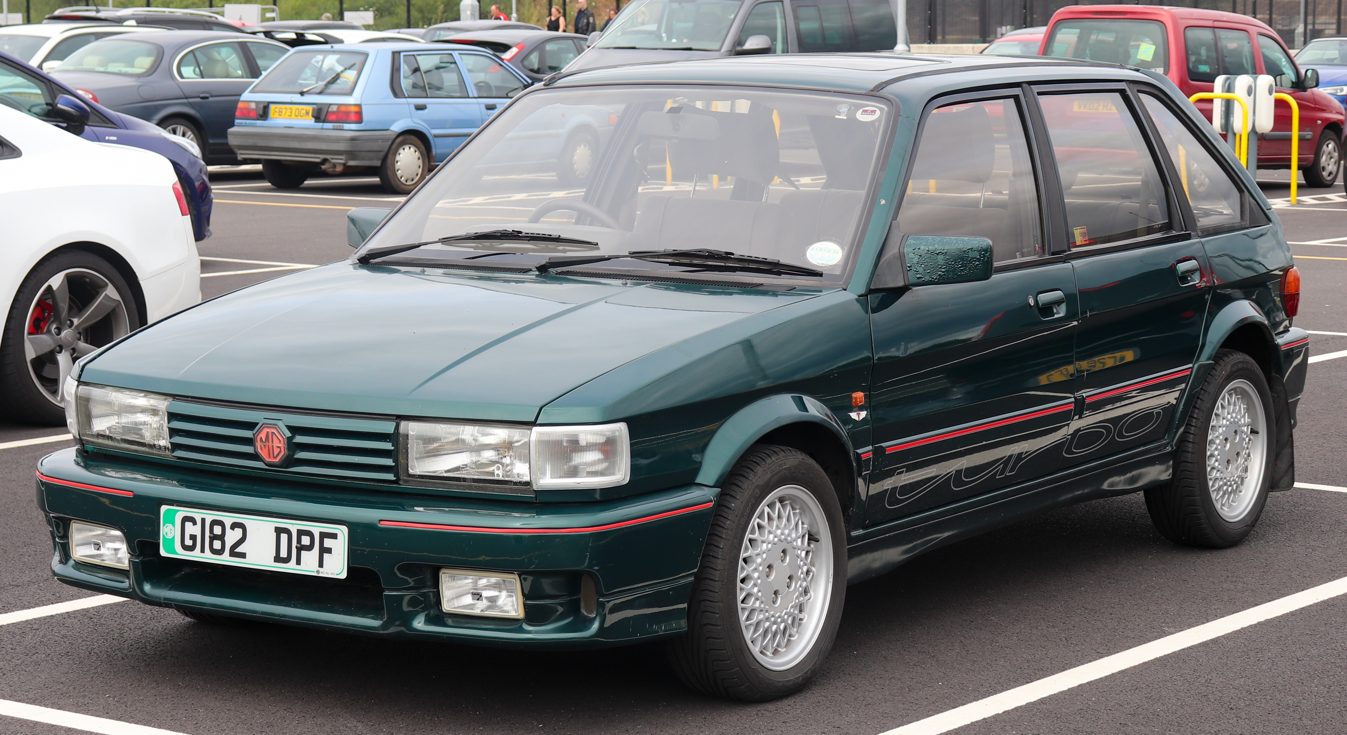 1990 MG Maestro Turbo 2.0 Front Taken at the British Motor Museum, Gaydon